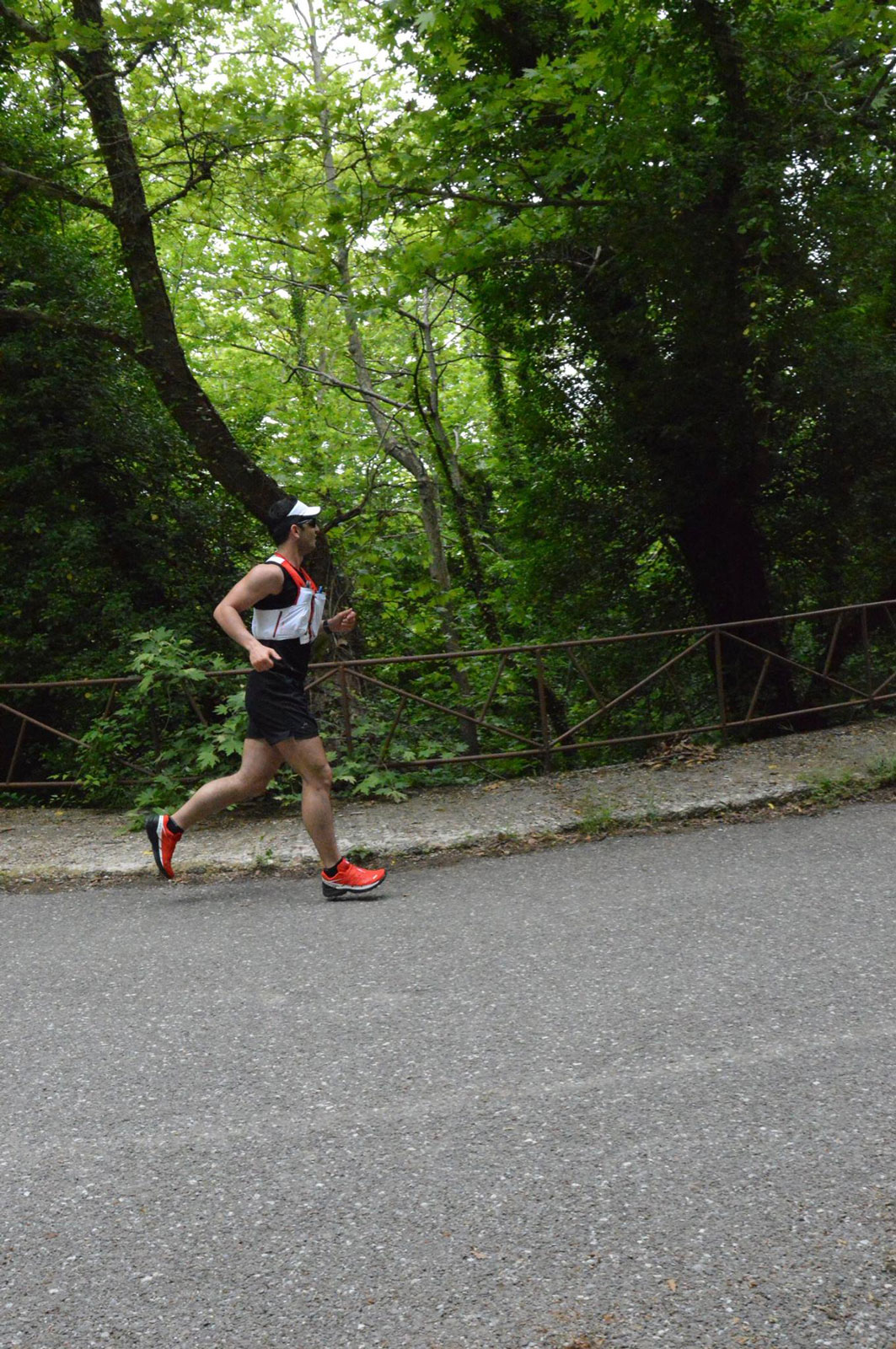 Picture from the Ano Doliana Half-Marathon of 2017.